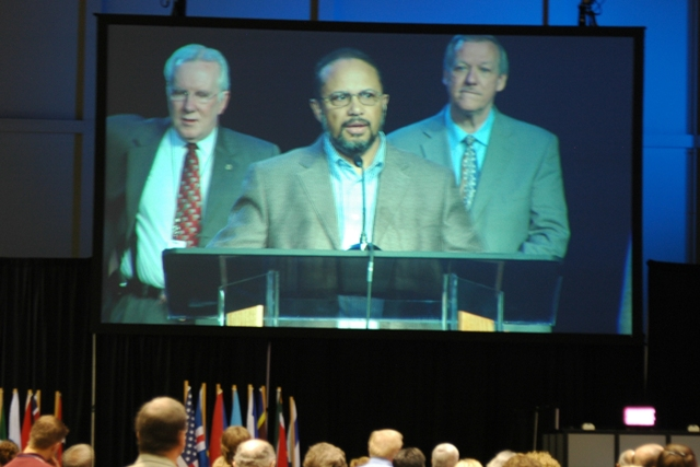 Picture of projection of Eugenio Duarte just after his election to General Superintendent in the Church of the Nazarene as he accepts his election.